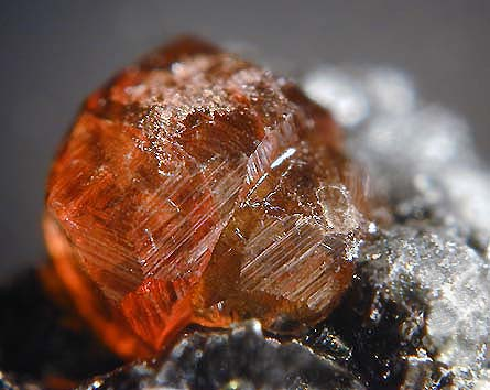 Hessonite garnet